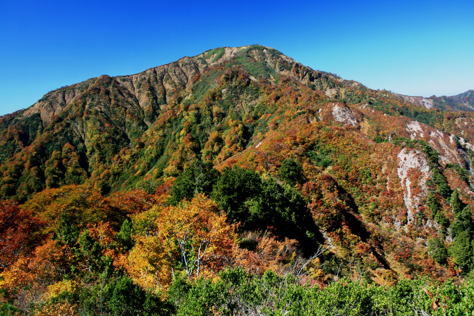 Ogasayama_from_Maeoizurugatake_2010-10-17